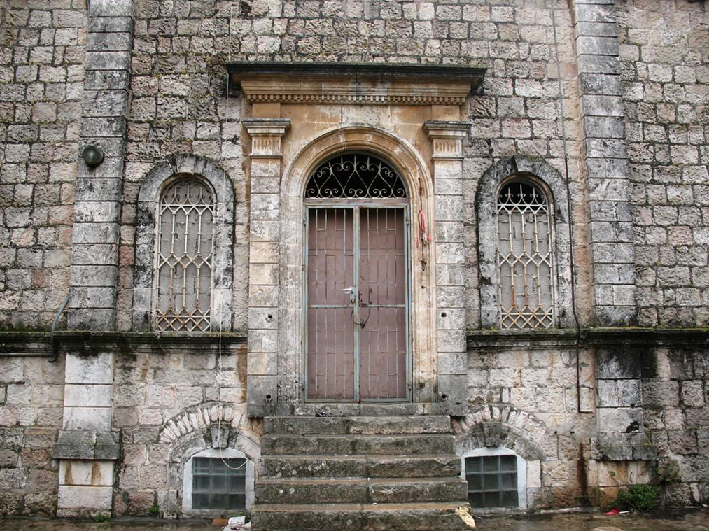 House of Kelk (Bishop's House), Steert of Prophets, Jerusalem